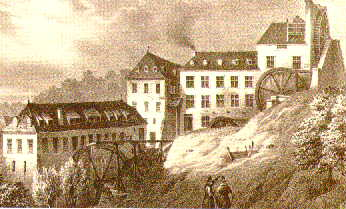 Old drawing of Senningen Castle and paper mill near Niederanven in Luxembourg.